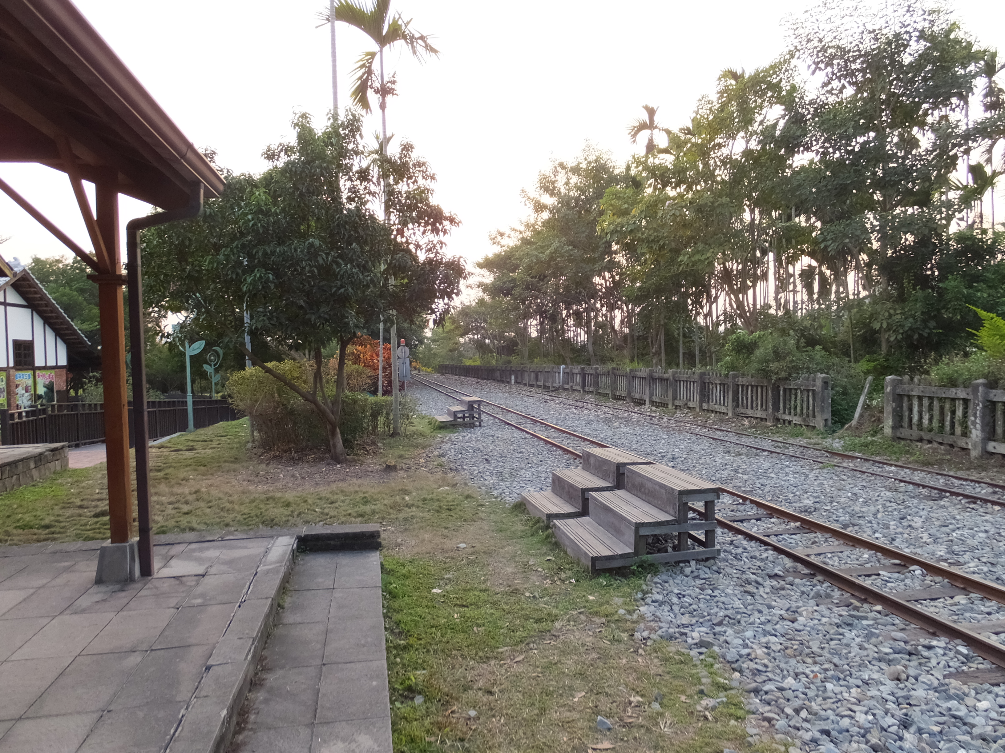 Lumachan Station 鹿麻產車站